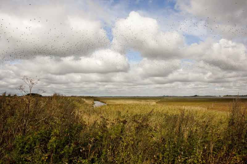 Large bird flock, seen northeast of the Danish isle Egholm